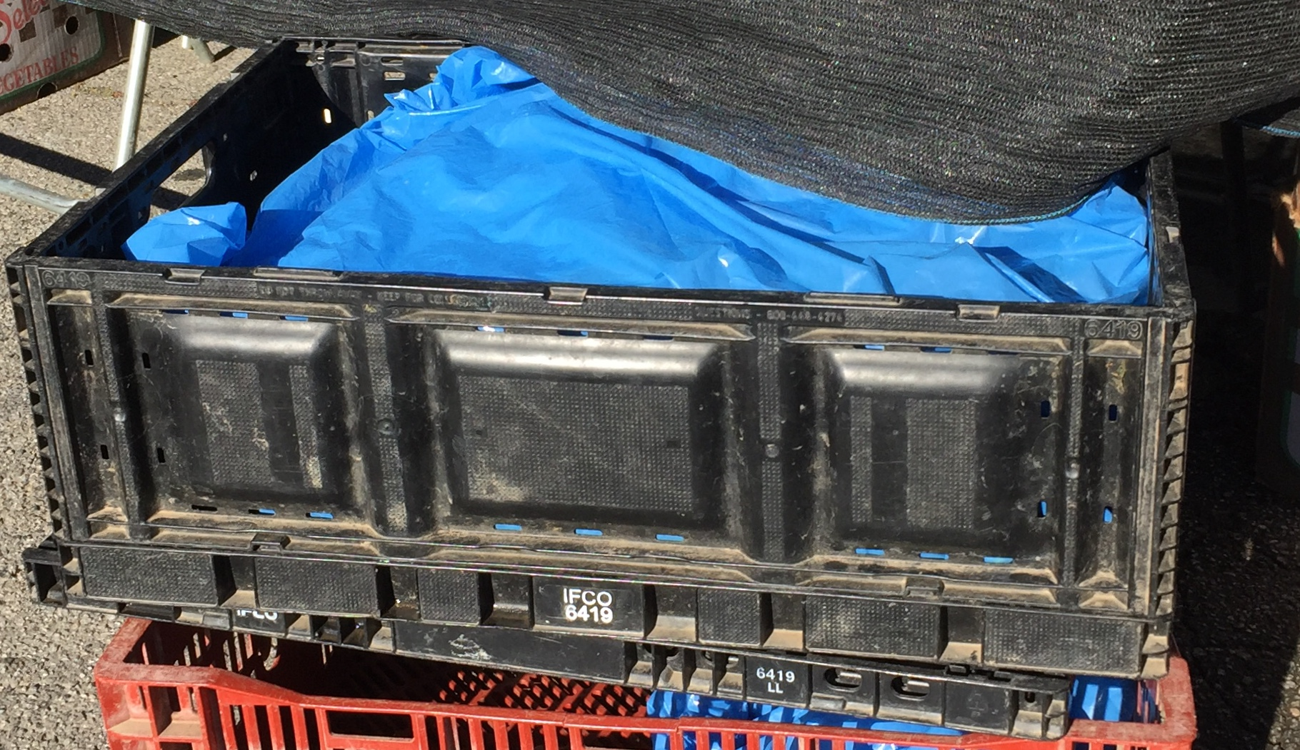 Ifco trays (an acronym for international fruit container) are containers developed in Germany in 1992 which are primarily used in retail to hold fruit and vegetables and to transport fish